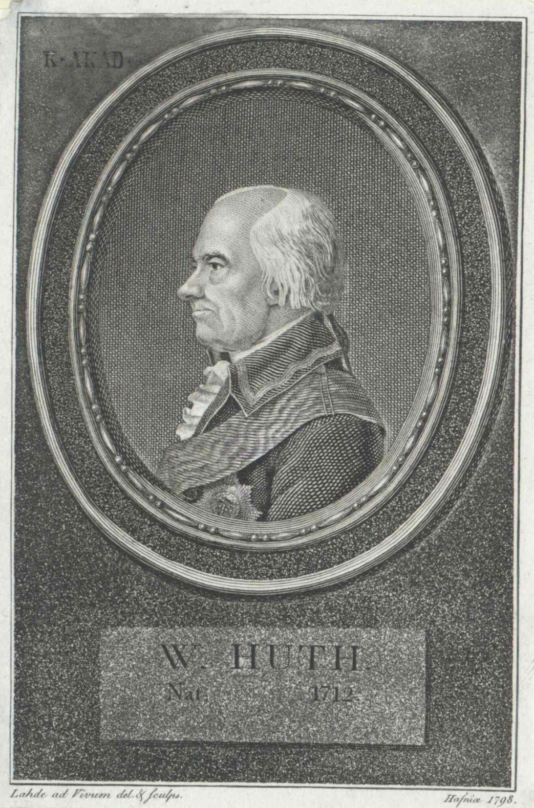 Portrait of Heinrich Wilhelm von Huth (1717-1806), Danish general